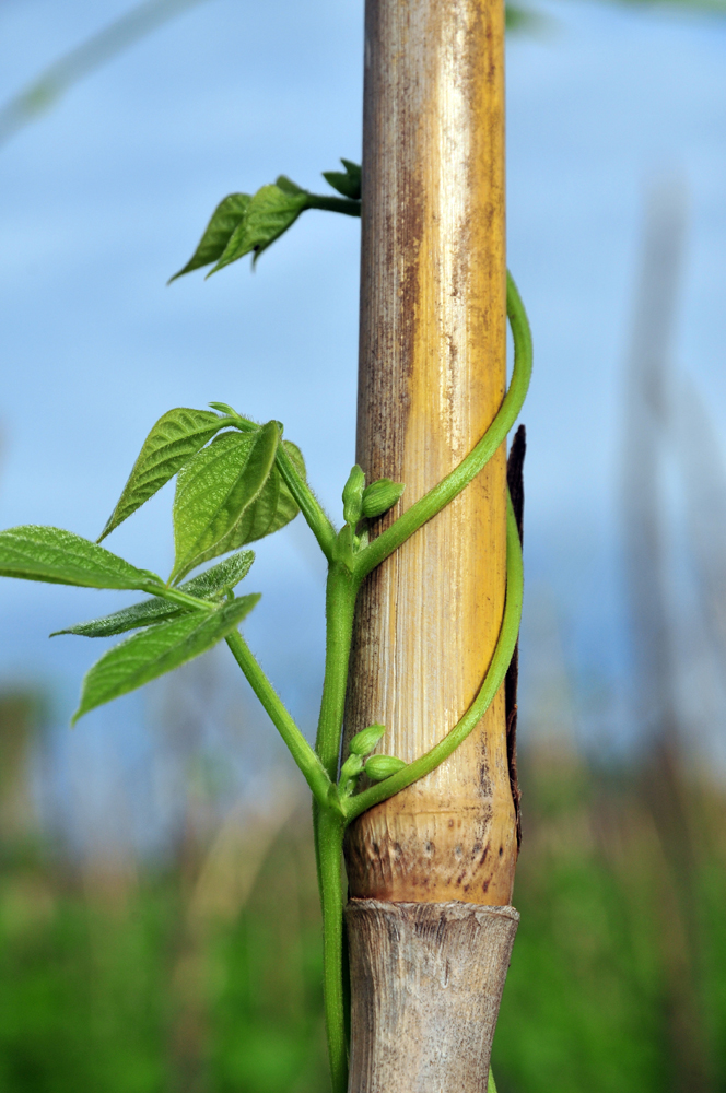 Pic by Neil Palmer (CIAT). Climbing beans at a site in Kisolo, Uganda.